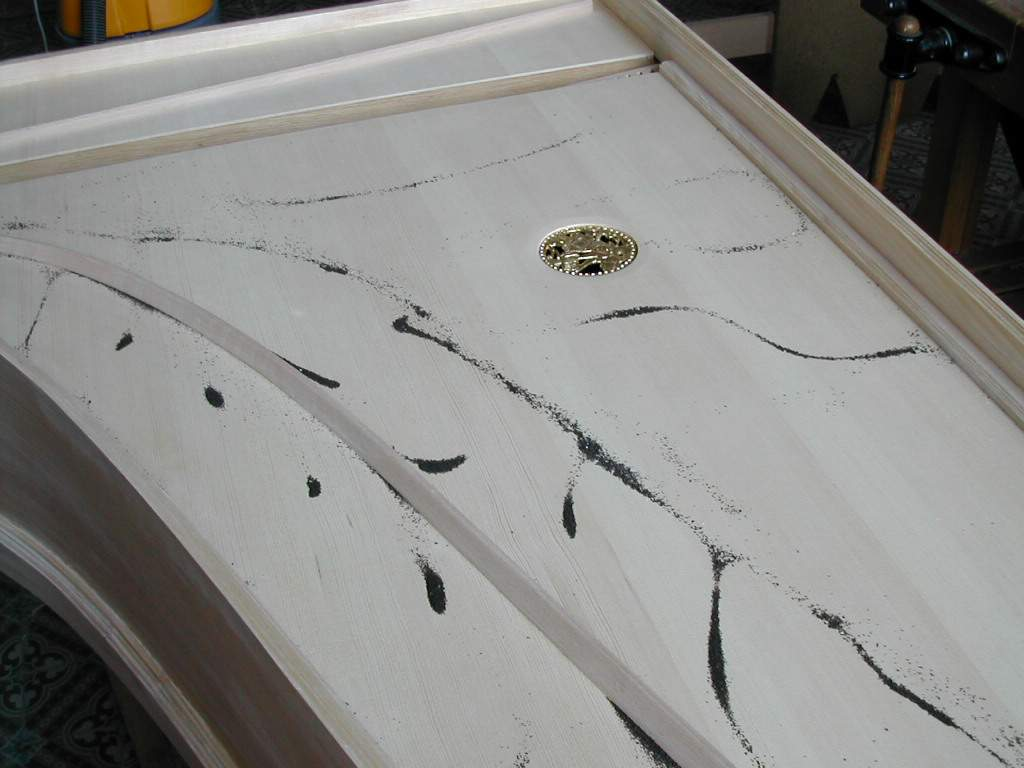 Resonance made visible with black seeds on a harpsichord soundboard, forming Chladni figures.